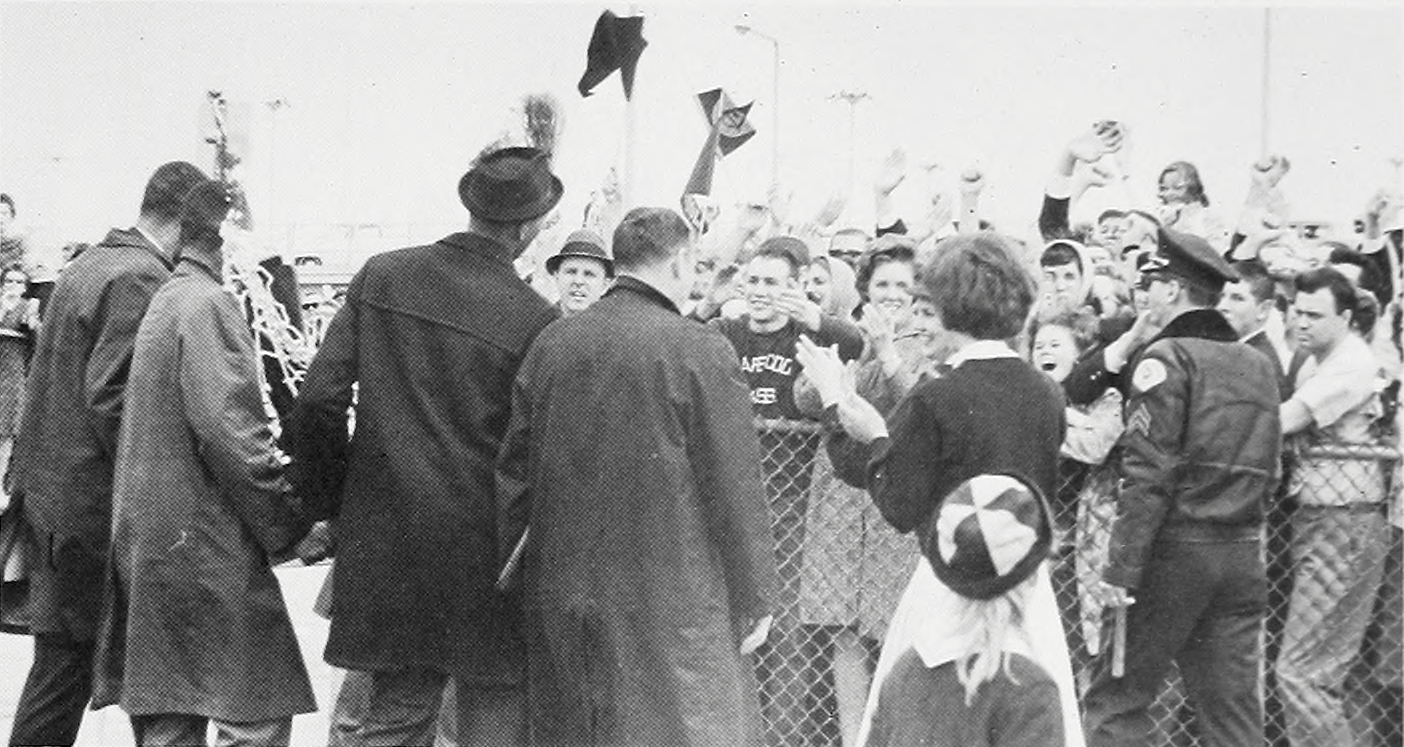 The 1962–63 Loyola Ramblers men's basketball team arrive home at O'Hare International Airport with the 1963 NCAA University Division Basketball Championship trophy. This photo was scanned from page 53 of the 1963 edition of the Loyolan, the yearbook of Loyola University Chicago. It originally bore the caption: "The Ramblers show their trophy to some of the 2,000 students greeting the team at O'Hare airport."